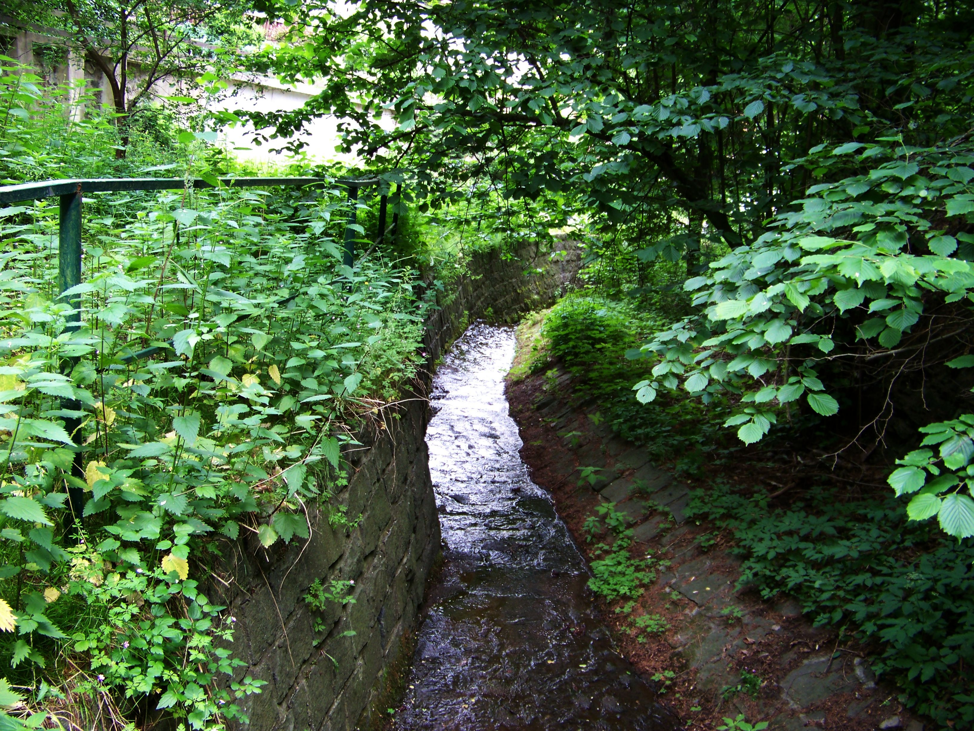 Prague-Zbraslav, the Czech Republic. Záběhlický Stream. - OpenStreetMap (Info)